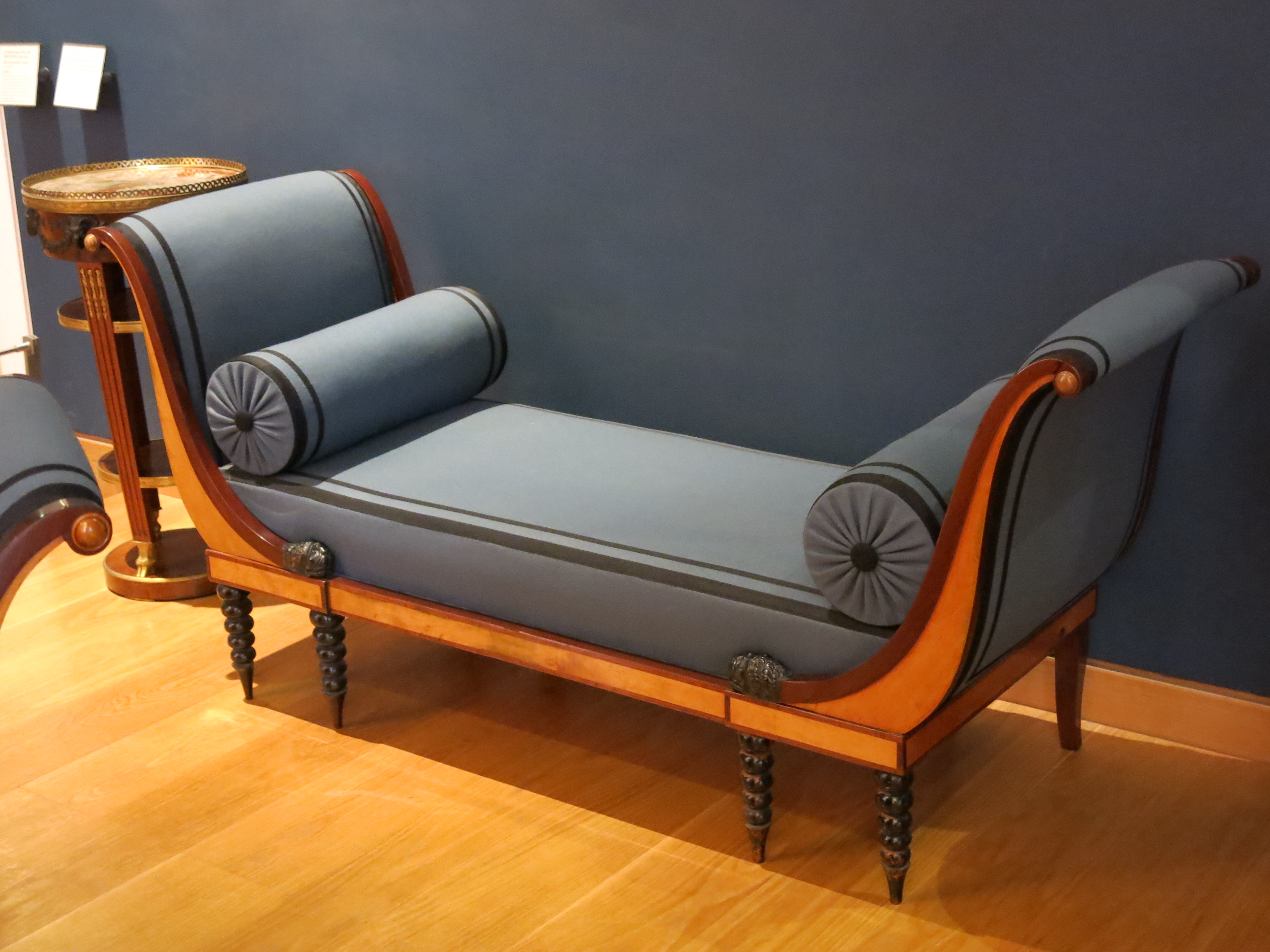 Long chair of Récamière type from the salon of madame Récamier. Jacob brothers circa 1798. Louvre museum (Paris, France).